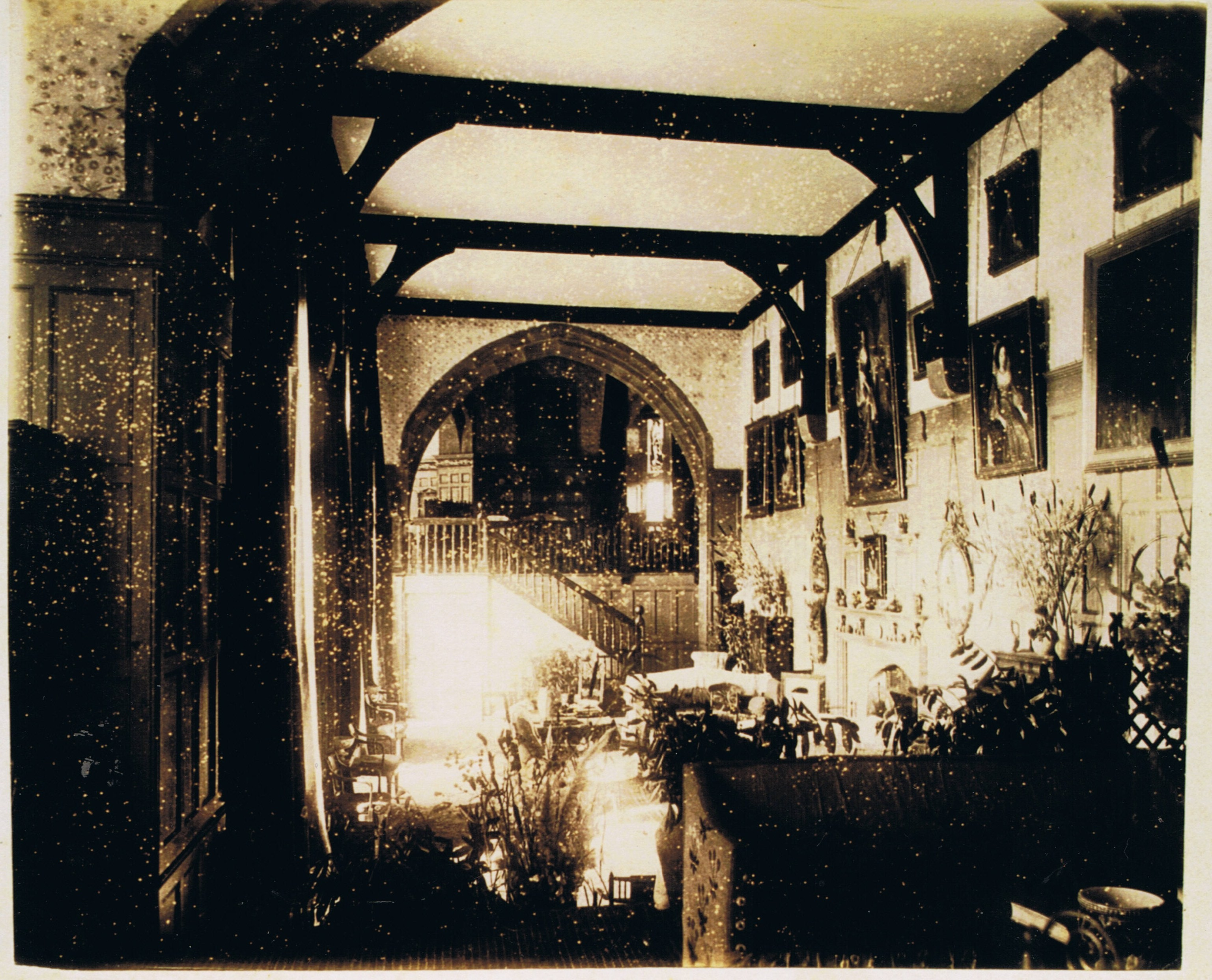 My scan or photo (R. de SalisRodolph (talk) 23:16, 27 May 2014 (UTC)) of a photograph of Loton Park's hall, c1870, from an album compiled by an aunt, and uncle, of the Leightons of the day.